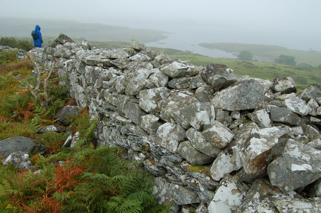 Iron Age hill fort, Ardinamir, Luing, Argyll and Bute